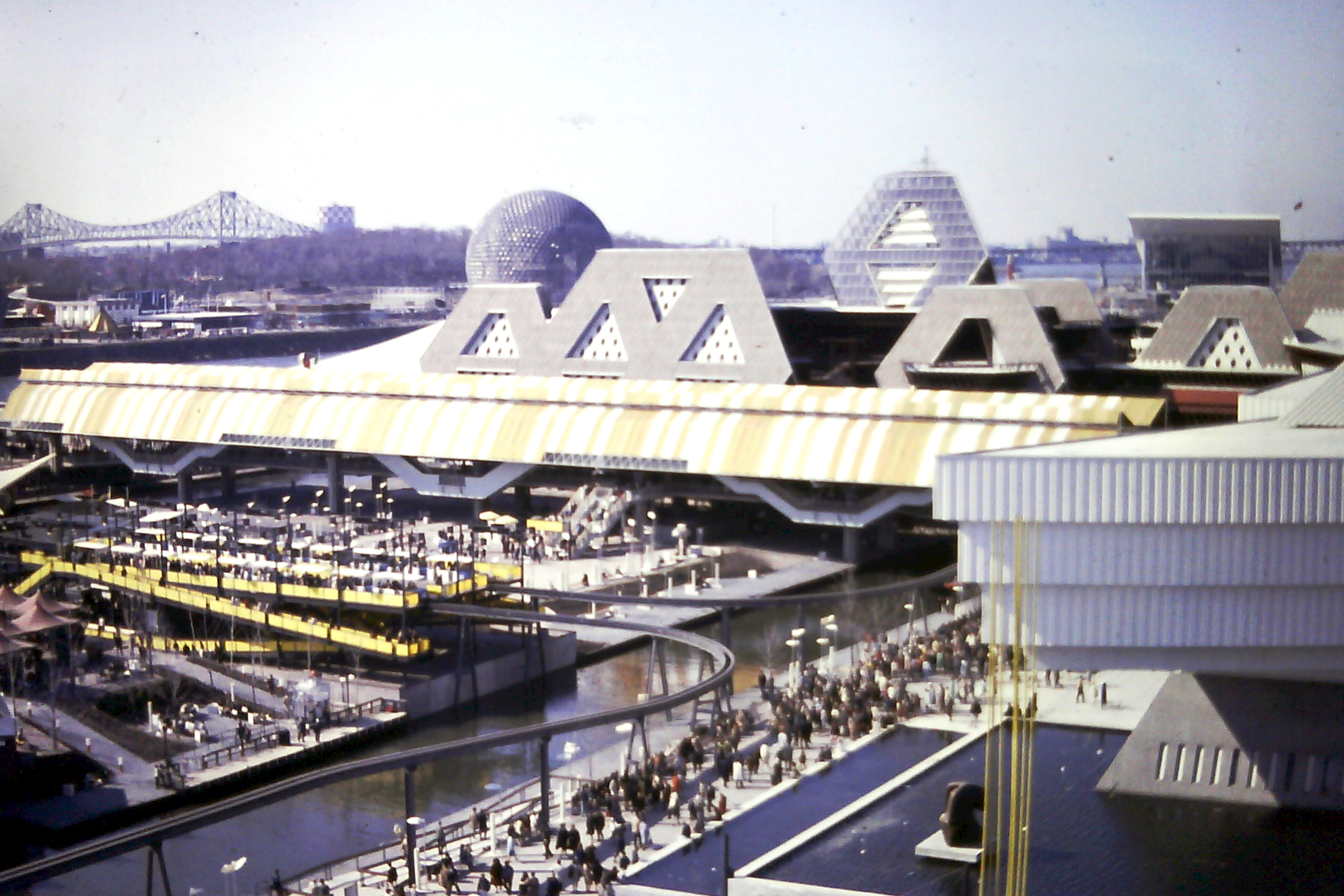 Expo-Express train station and the adjoining thematic pavilion Man the Producer on Notre-Dame island. This picture was taken by my father at Expo 67 (I was -7 years old at the time). I scanned these pictures from slides.